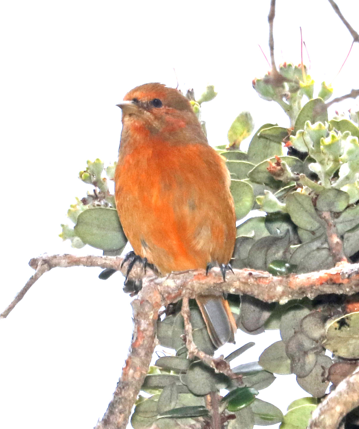 AKEPA (8-30-2017) hakalau forest national wildlife refuge, hawaii co, hawaii -02 imm male